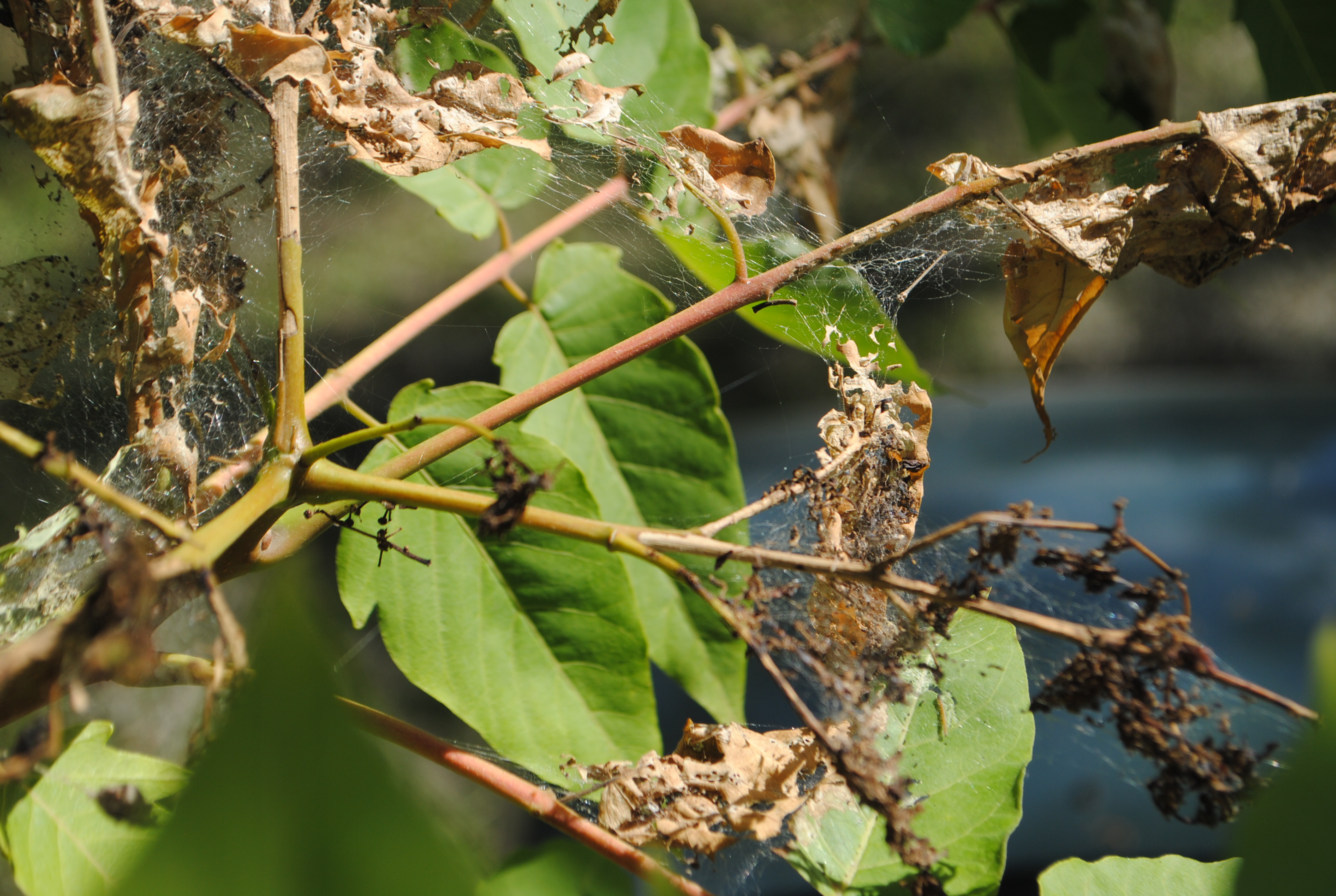 Ailanthus webworm, Atteva aurea, in Ailanthus altissima tree, Parque Villarino, Zavalla, Santa Fe Province, Argentina